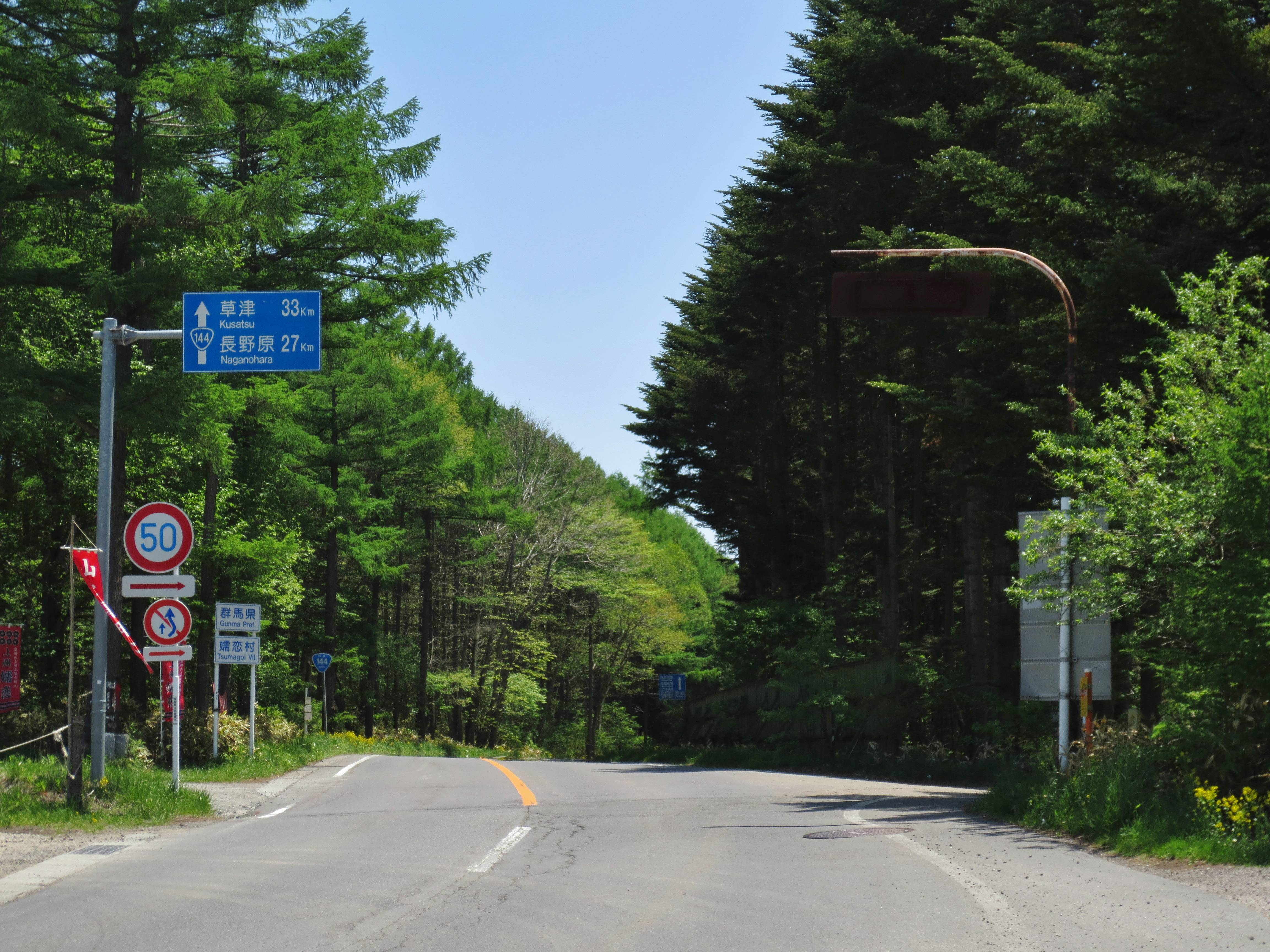 Torii Pass (Tsumagoi, Gunma - Ueda, Nagano).